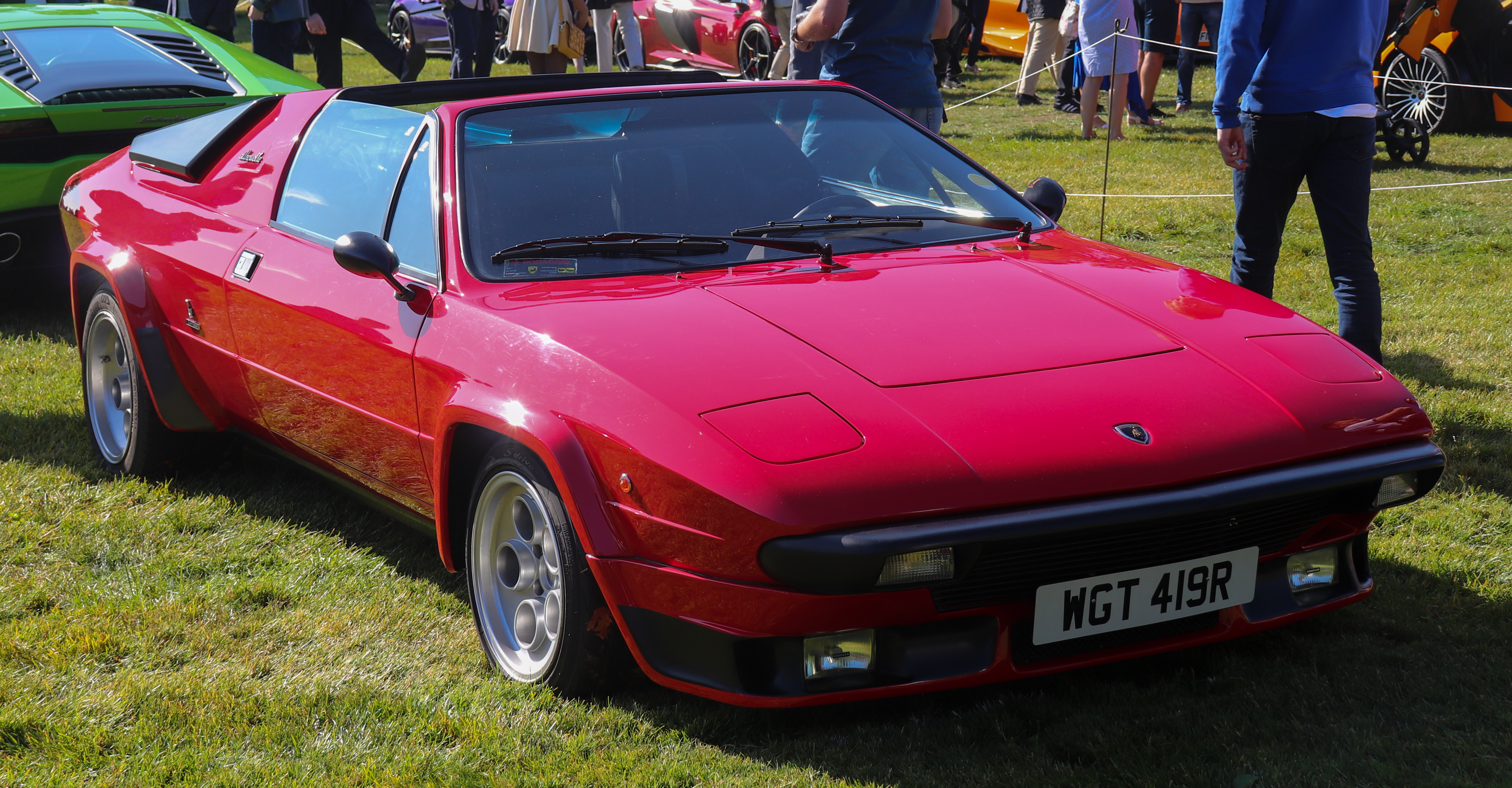 1976 Lamborghini Silhouette P300 3.0 Taken at the Salon Privé Concours d'Elegance Classic Car Motor Show 2019, Blenheim Palace